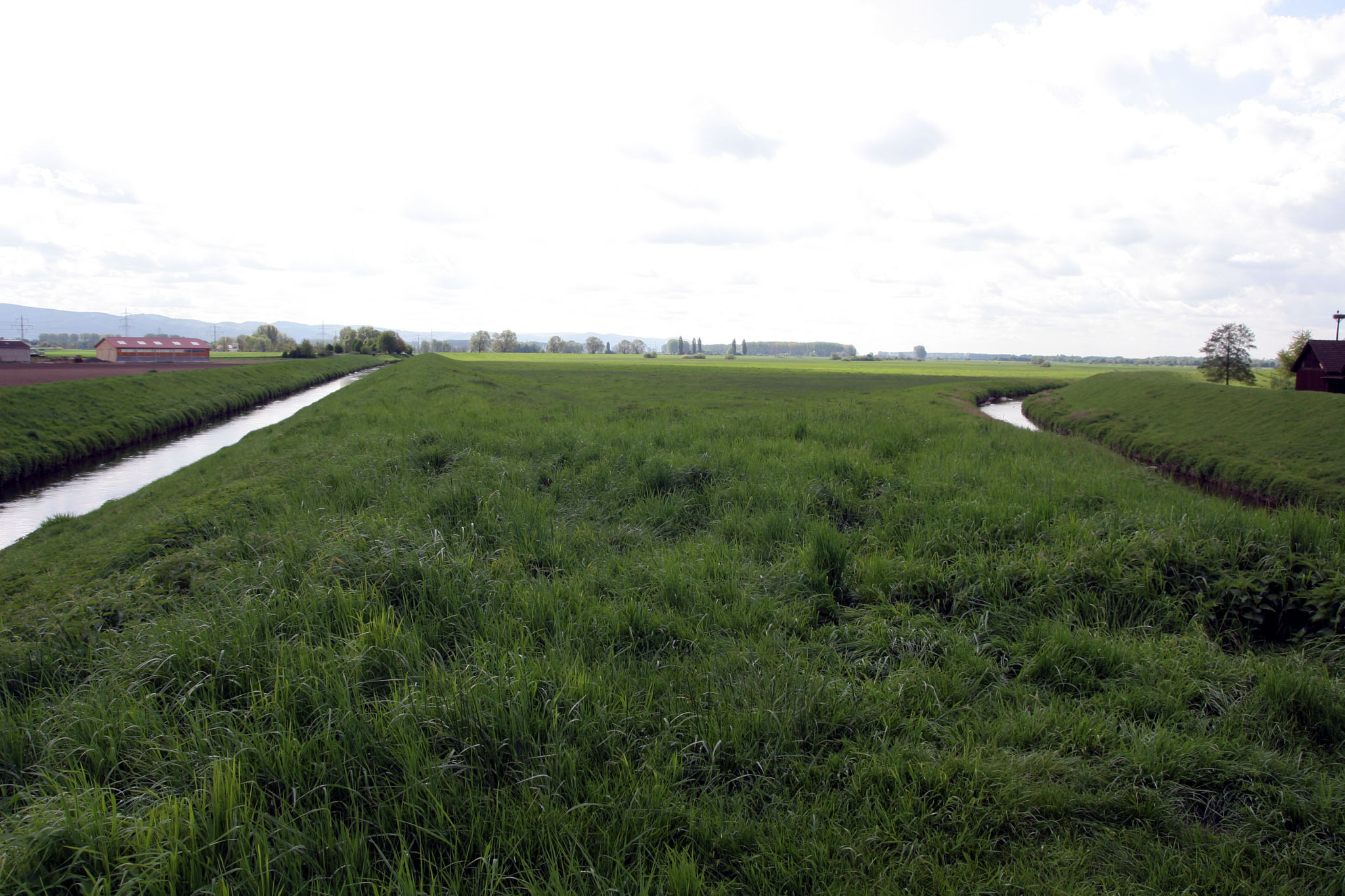 The nature protection area Weschnitzinsel, close to Lorsch (Hesse, Germany)